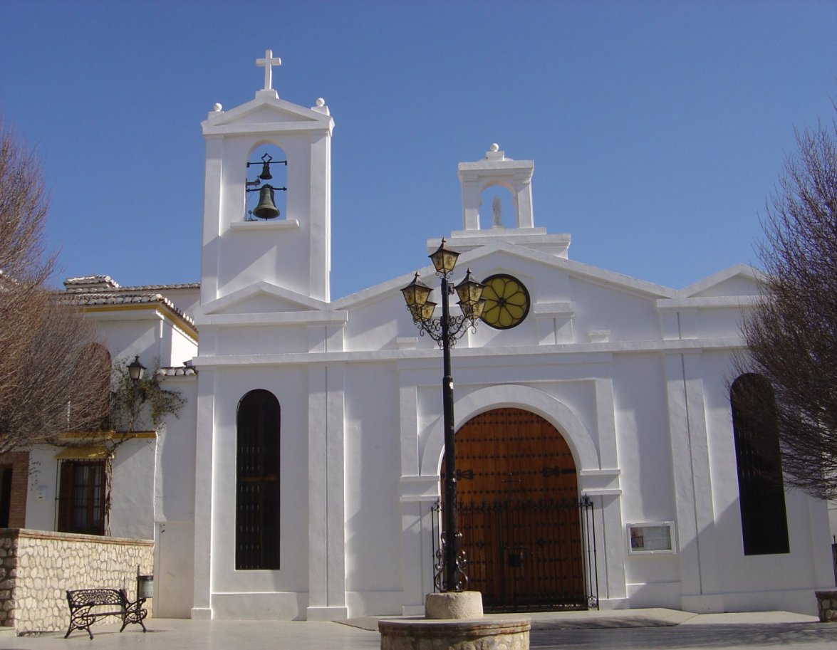 Church of Our Lady of el Rosario, Villanueva del Rosario, Spain.